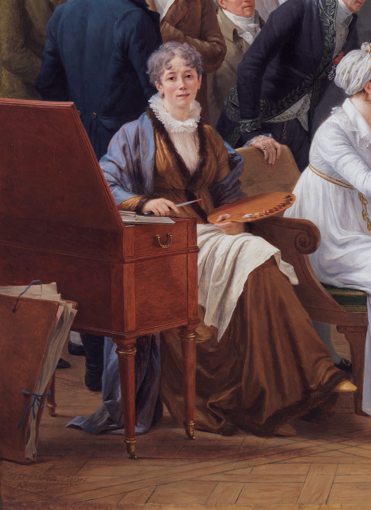 Detail of the 1808 Madame Vincent's painting Studio Scene around 1800, group portrait by Marie-Gabrielle Capet including herself and Adélaïde Labille-Guiard.